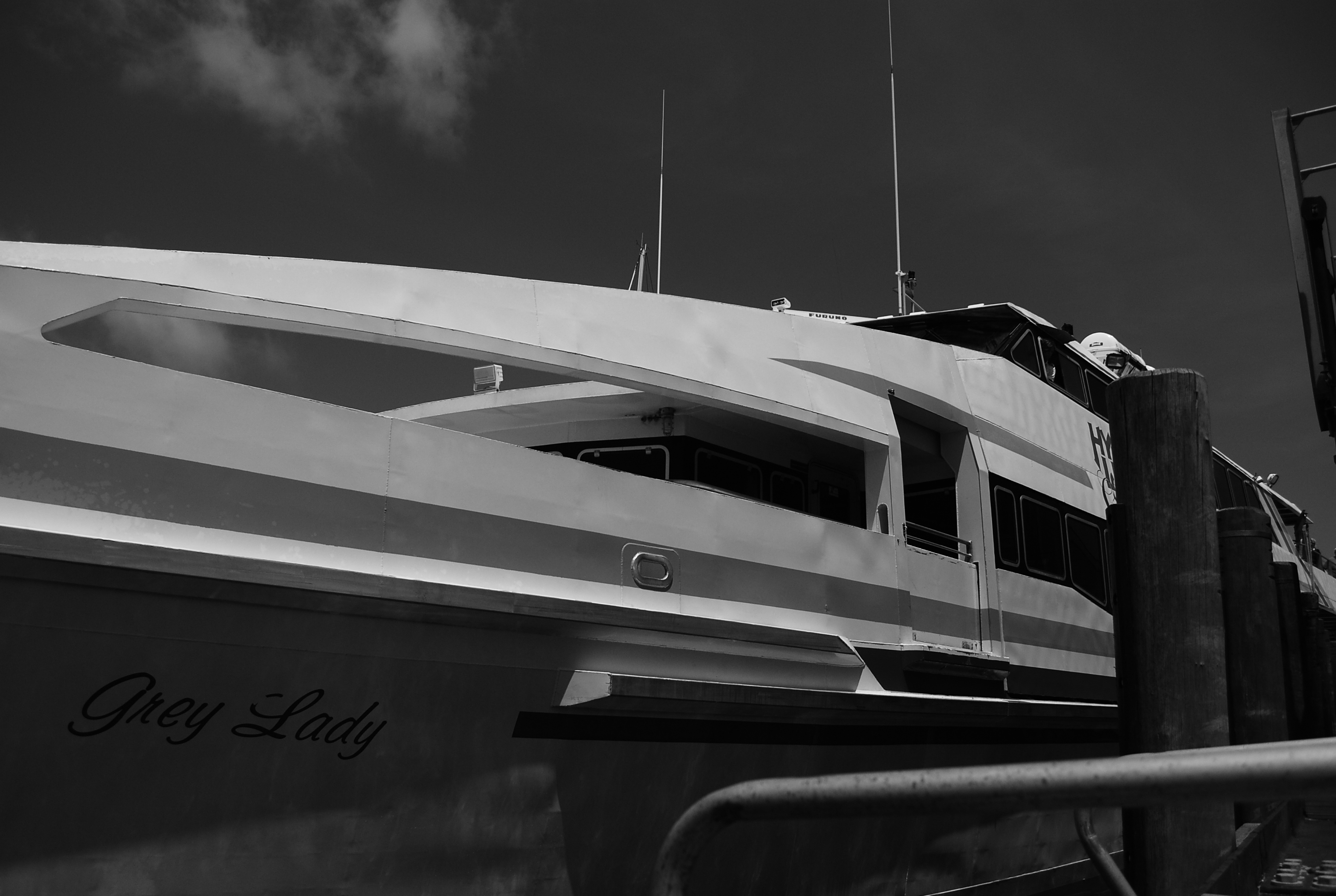 Hyline approach